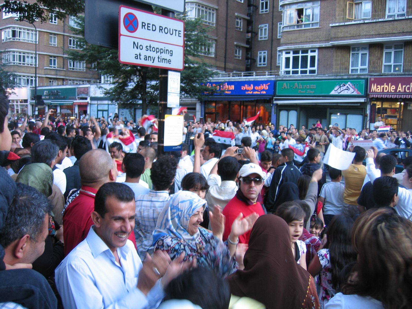 Celebrating Iraqis (and others) on Edgeware Road, London after the Iraq national football team beats the Saudi Arabian team to win the 2007 AFC Asian Cup